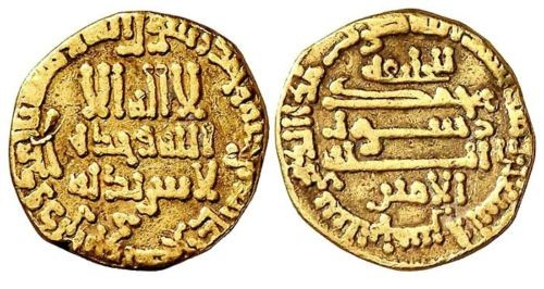 Abbasid Dinar (3.83 g) - Al Amin - 195 AH / 811 AD